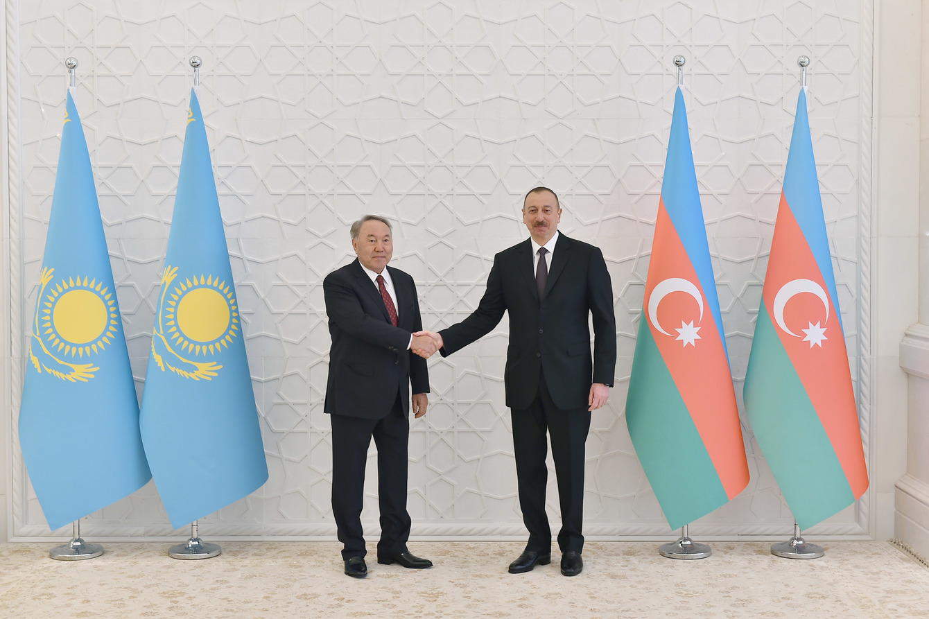 Official welcome ceremony was held for Kazakh President Nursultan Nazarbayev (Azerbaijan-Kazakhstan relations)